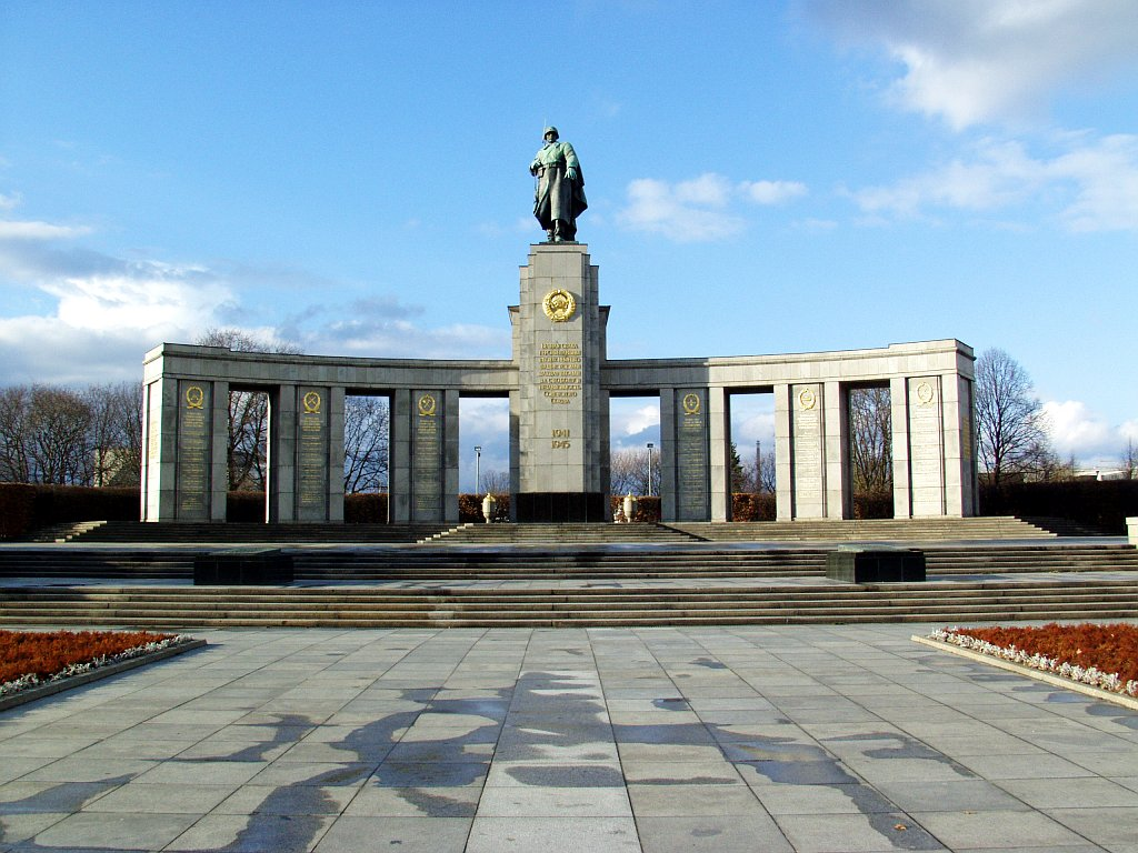 Berlin-Sowjetisches Ehrenmal (Tiergarten) - front view